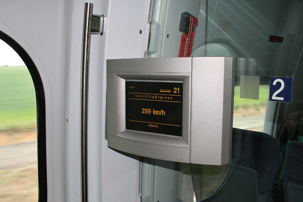 A screen of the passenger information system aboard an ICE 3 train.